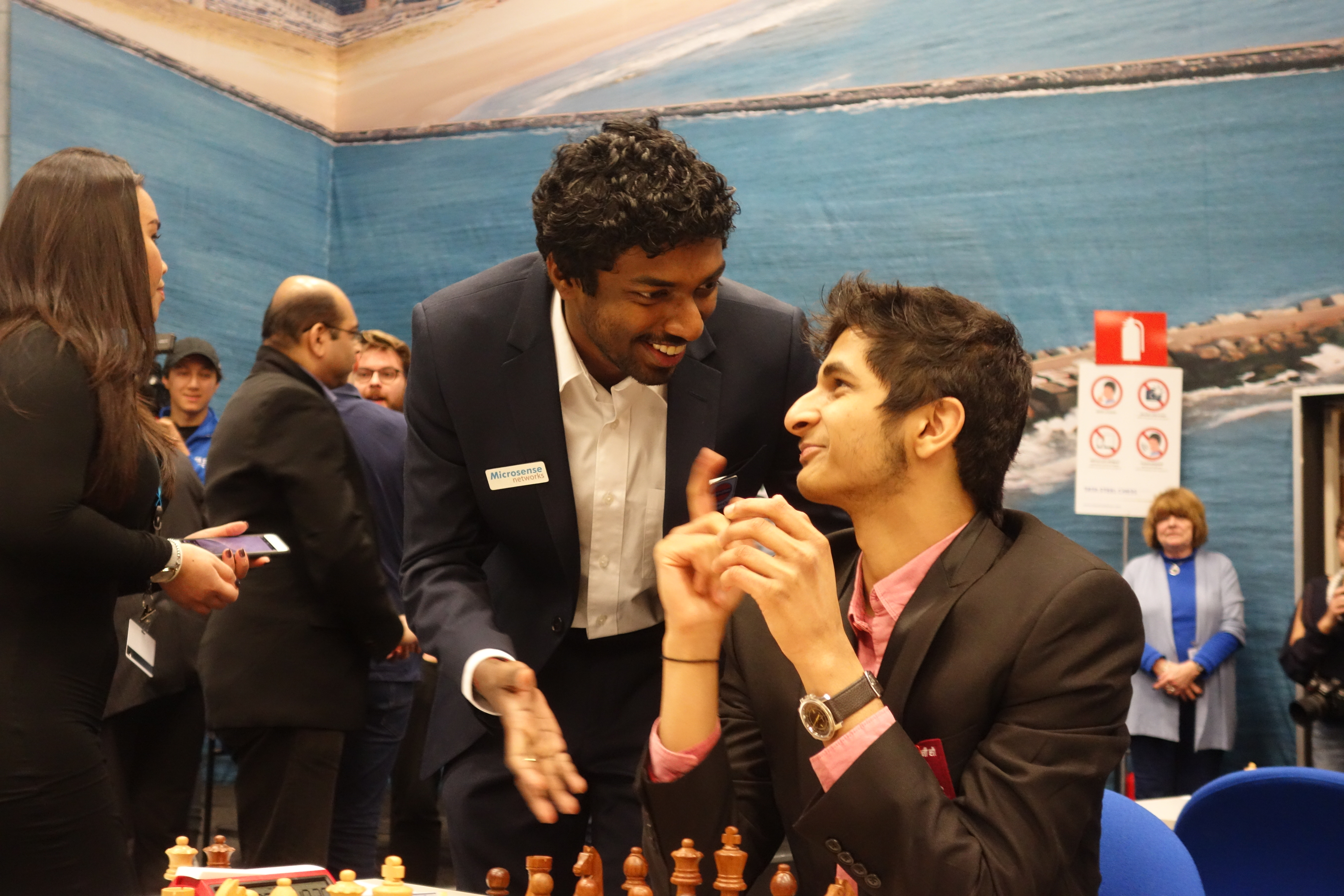 Tata Steel chess tournament 2018. Baskaran Adhiban & Vidit Santosh Gujrathi